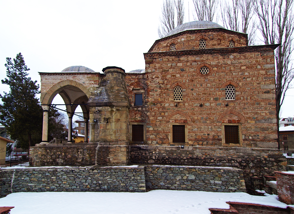 Ahmet Bey Mosque housing the archeology collection of Kyustendil History Museum